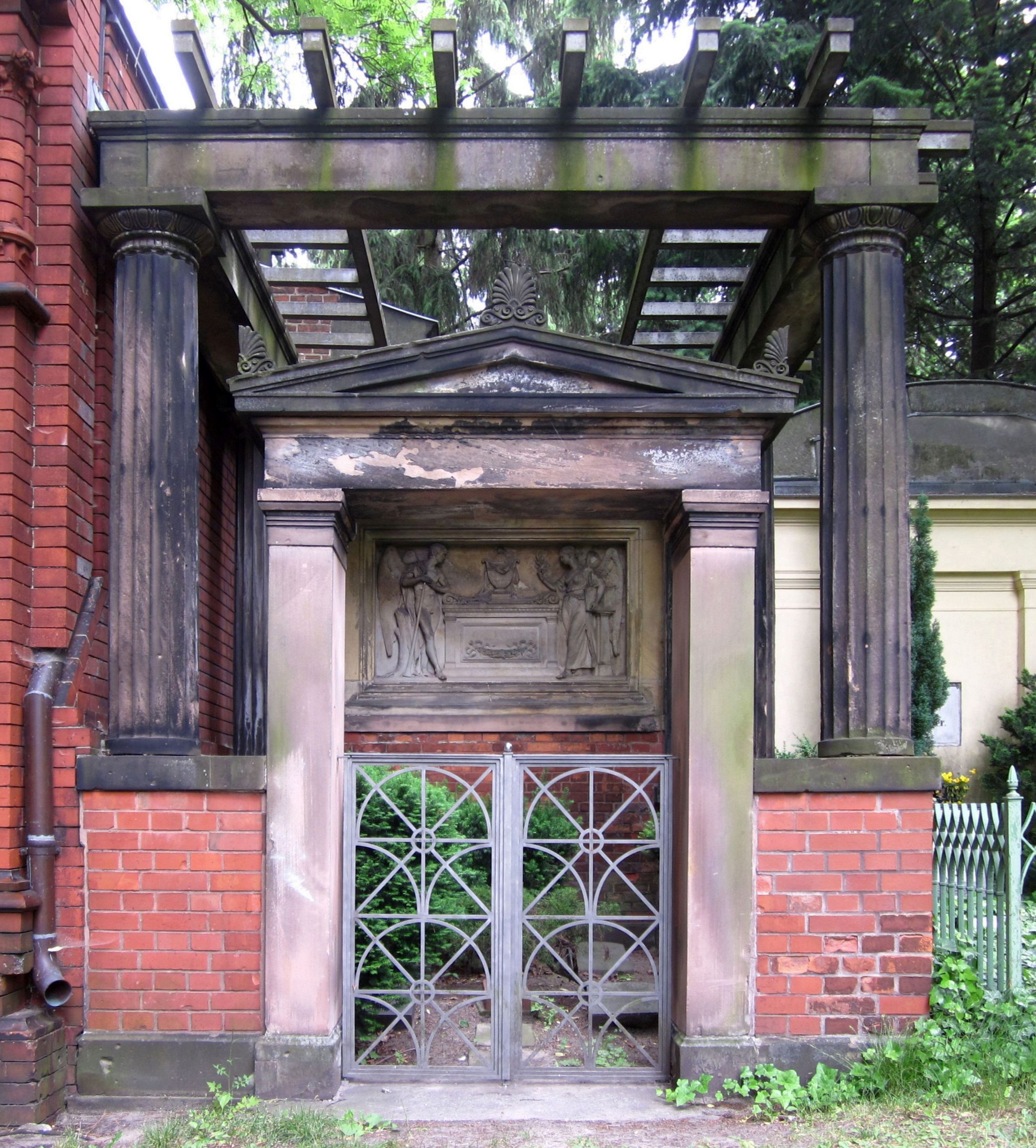 Grave of the architect Martin Gropius (1824-1880) on the Cemtery II of Trinity Church at Bergmannstraße in Berlin-Kreuzberg. The grave structure in the shape a pergola was built to a design by Gropius himself and by Heinrich Strack. The sandstone relief on the grave wall is by the sculptor Rudolf Siemering. Grave of Honor of the State of Berlin.